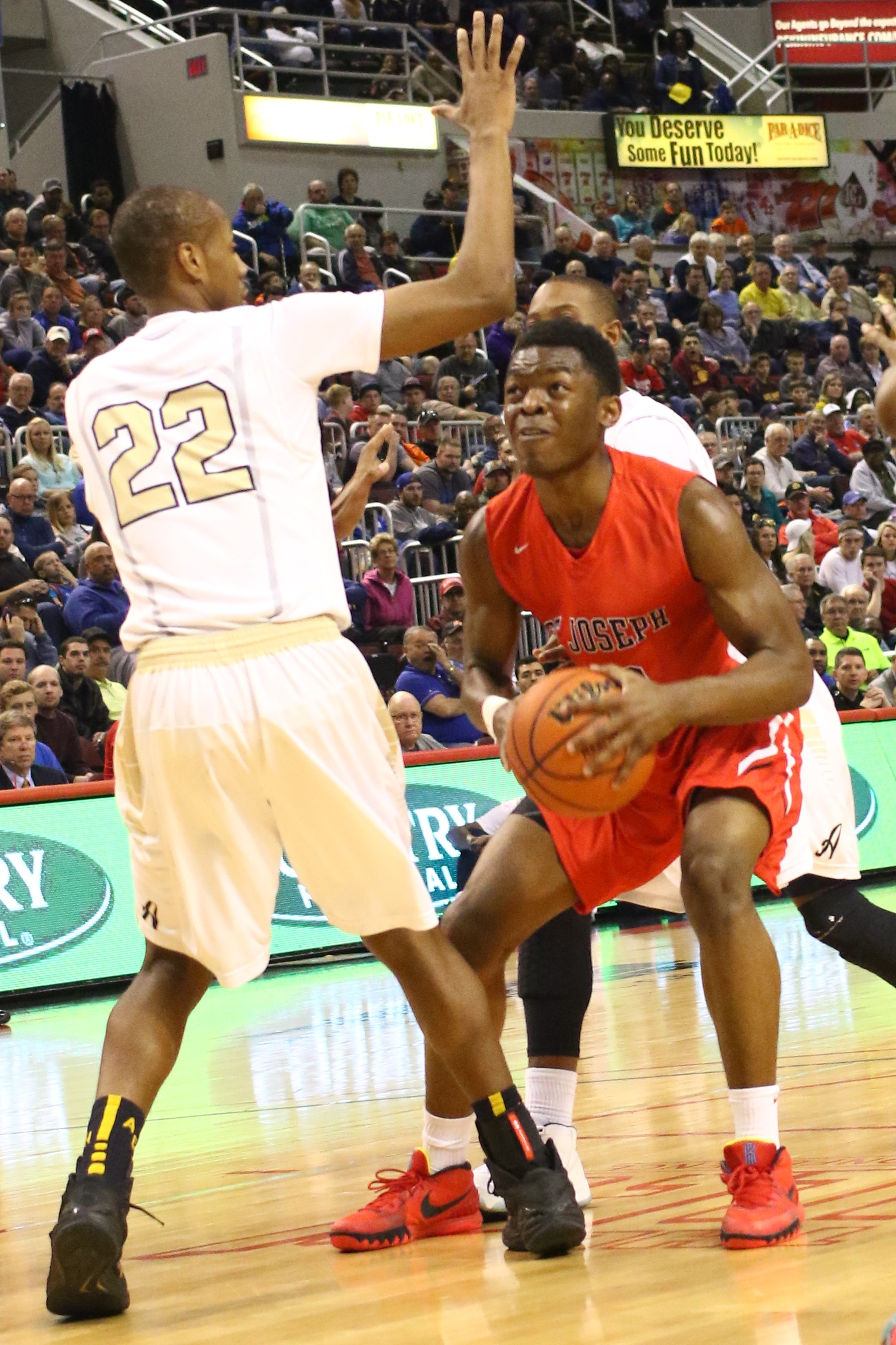 Jordan Ash in the 2015-03-21 Althoff v. St. Joseph Class 3A championship basketball game